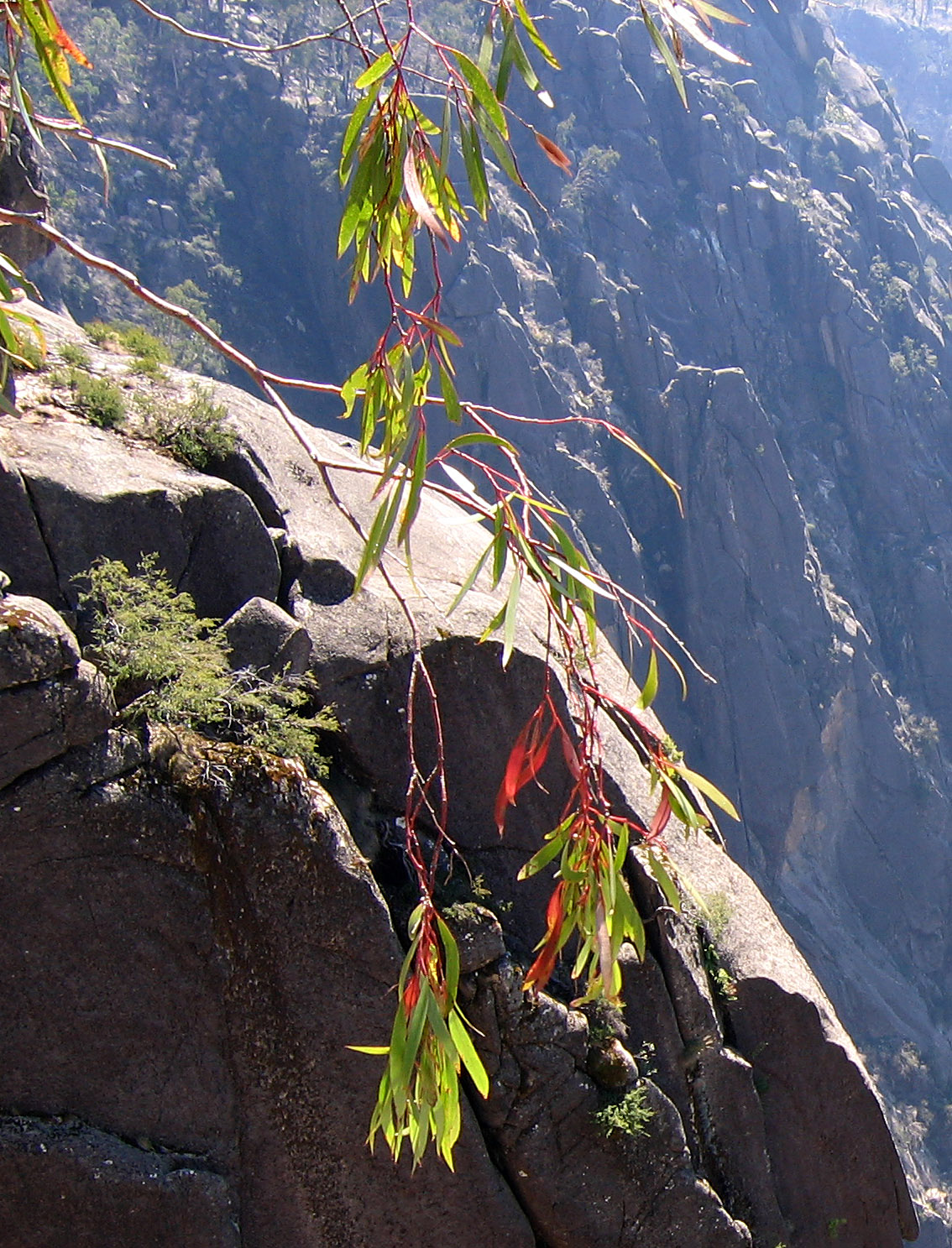 Leaves of Eucalyptus mitchelliana (Buffalo sallee) taken from Bents Lookout, Mount Buffalo. This species of Eucalyptus is the only one that is endemic to Mt Buffalo. Victoria, Australia.